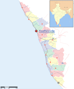 Locator map of Kozhikode (Calicut), Kerala, India.